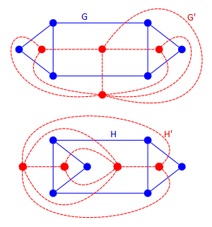 Non isomorphic dual graphs